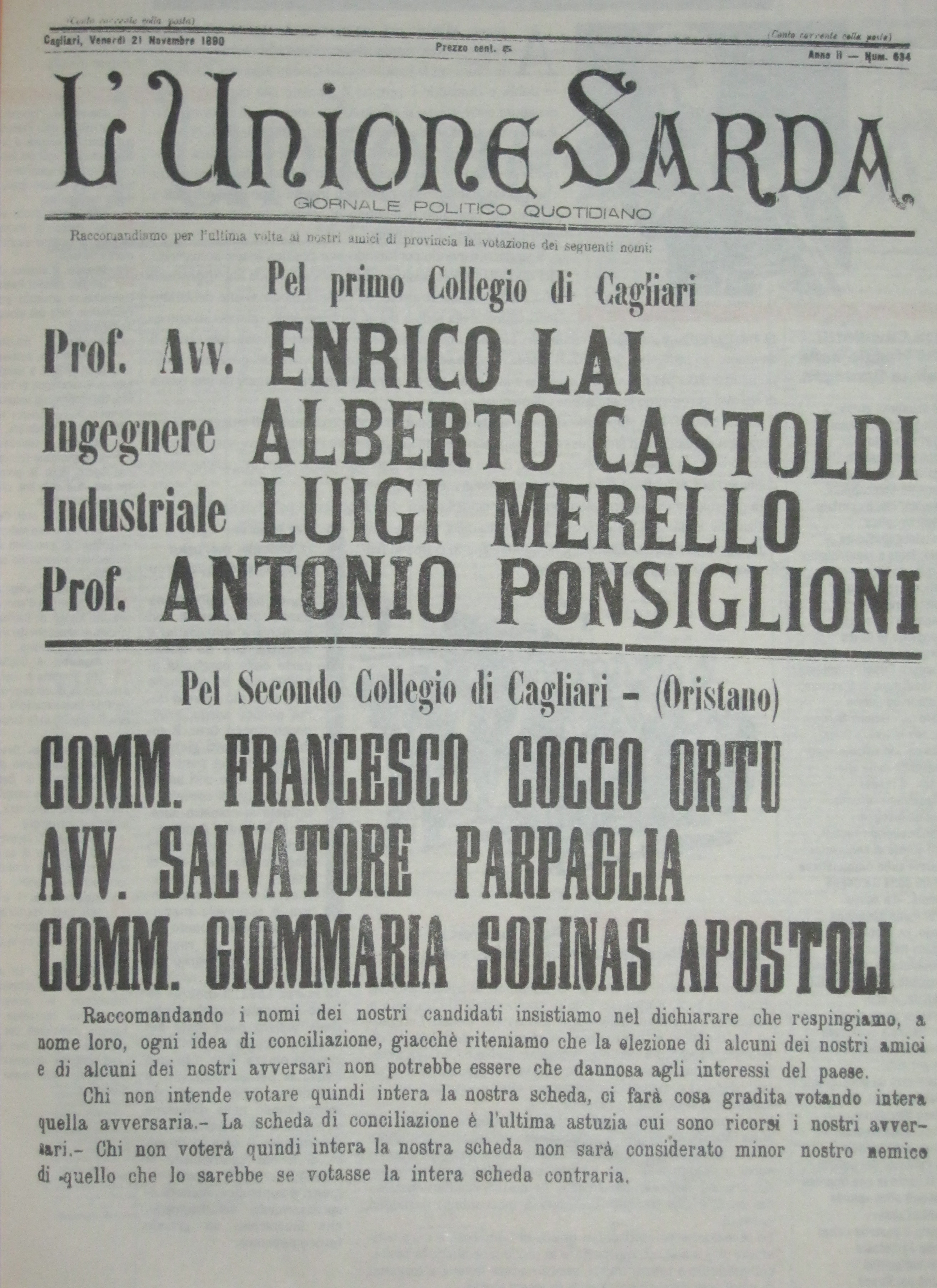 Unione Sarda of 21 11 1890